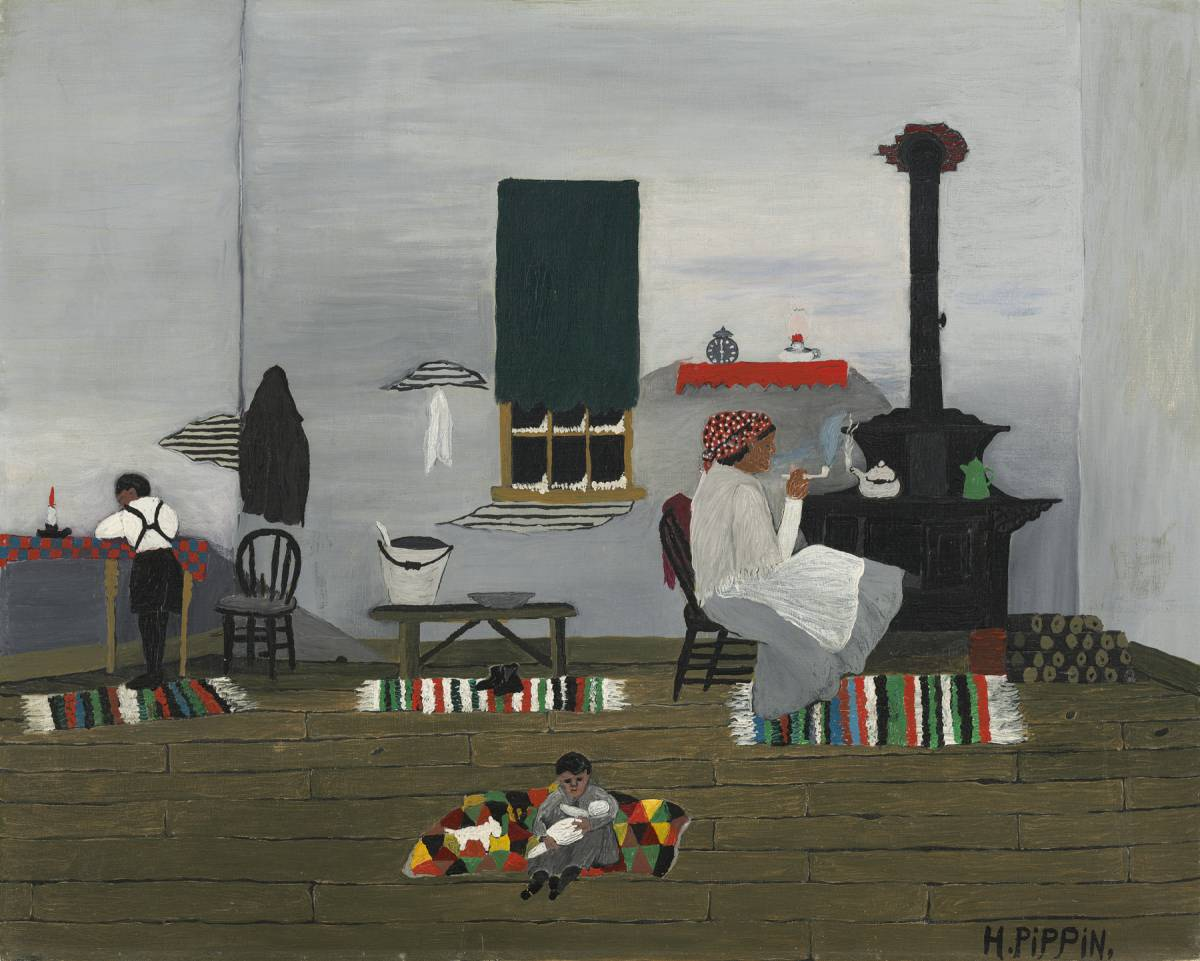 School Studies by Horace Pippin, 1944, oil on canvas, 24 1/8 x 30 3/16 in., National Gallery of Art, Washington